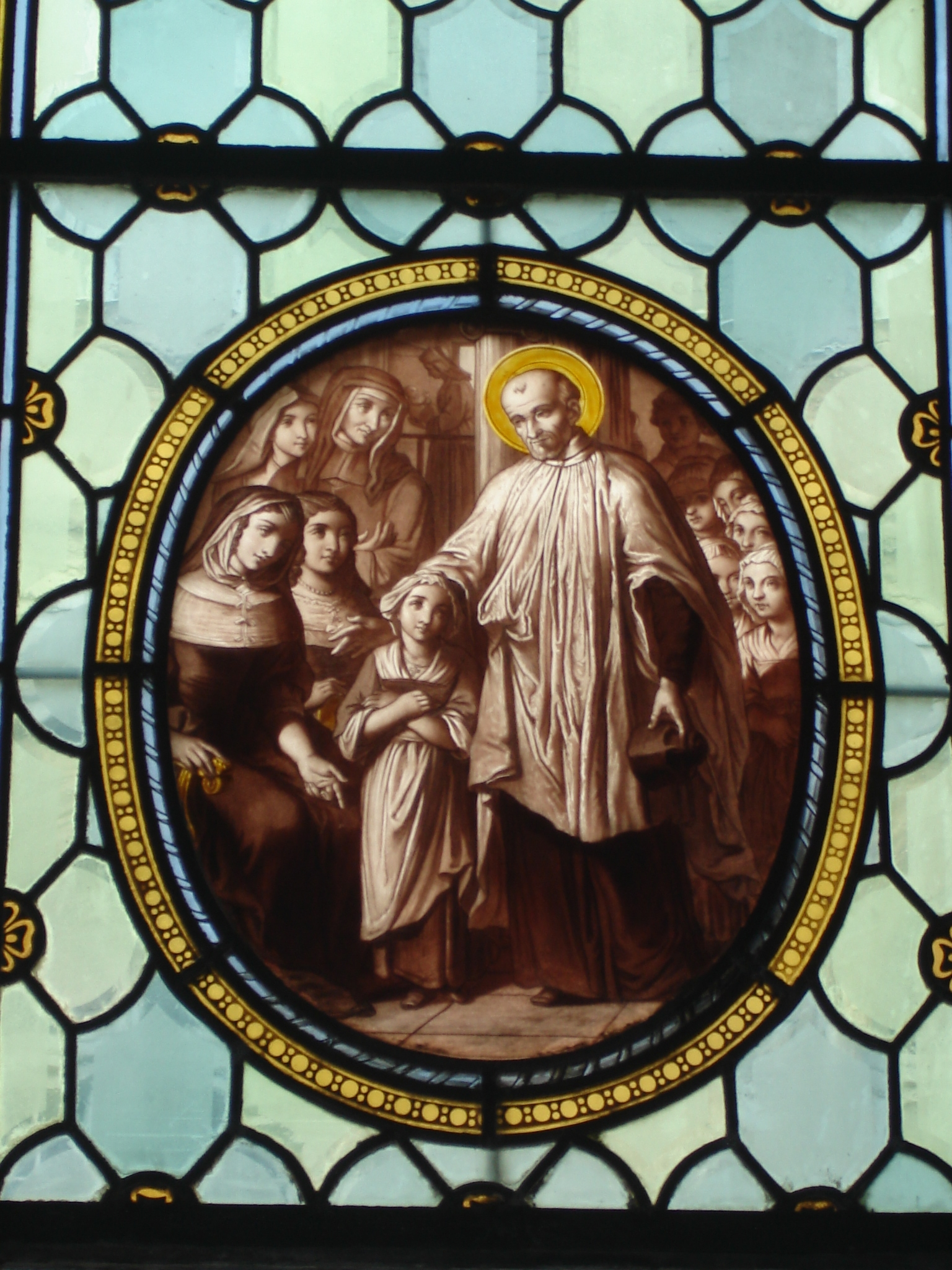 Stained glass window of the Chapelle Saint-Vincent-de-Paul in Paris, with the life of Saint Vincent de Paul- detail